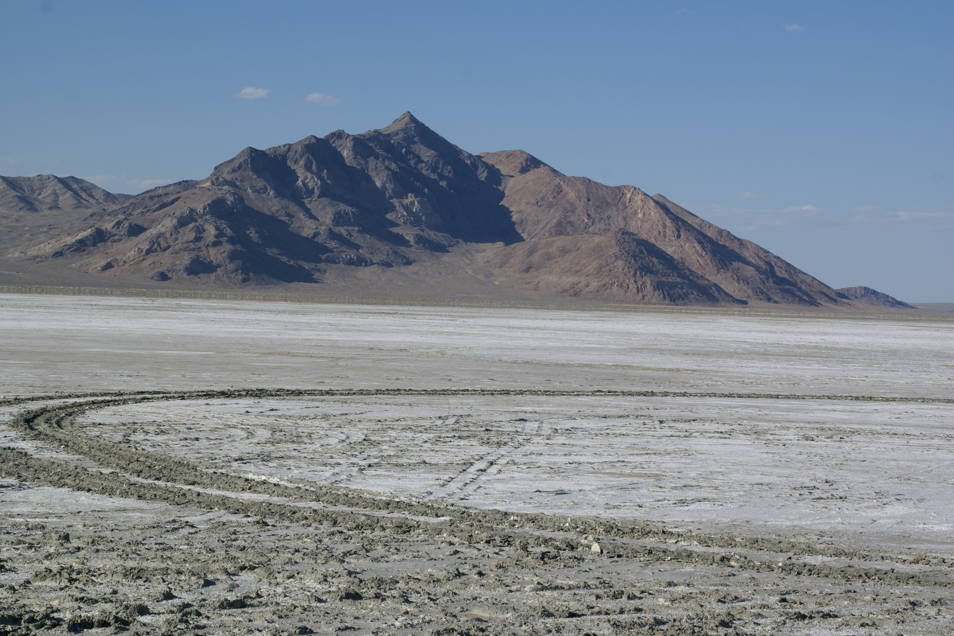 Bonneville Salt Flats near Wendover in Utah, USA